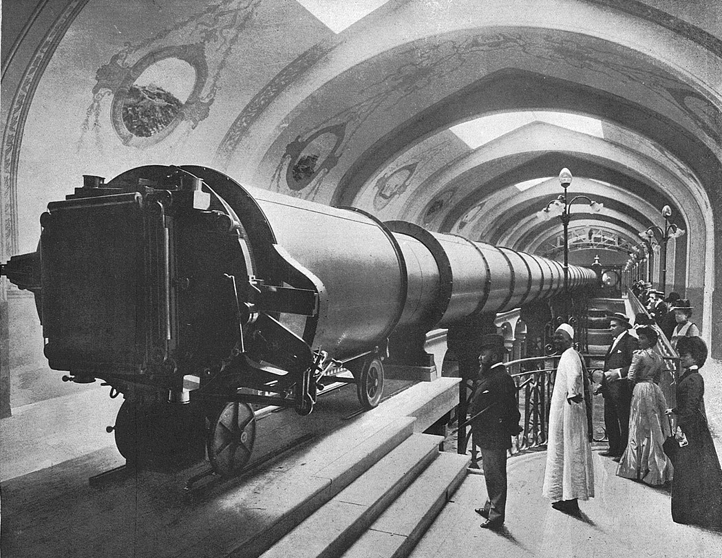 An overview of the great telescope installed at the Paris 1900 Exposition universelle - Palais de l'Optique, Champ-de-Mars, Paris, France.